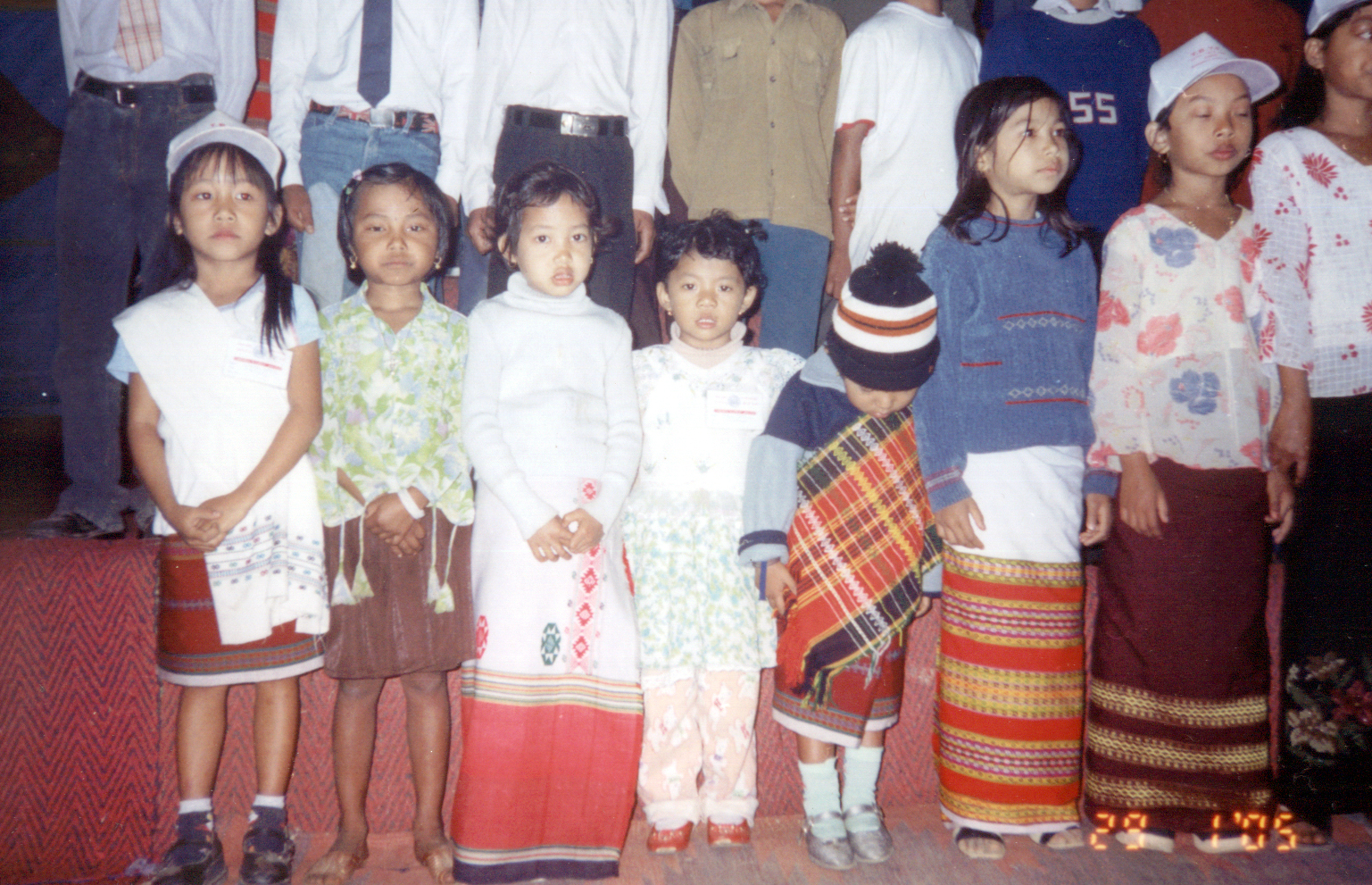 Tripuri children's singing in a group.